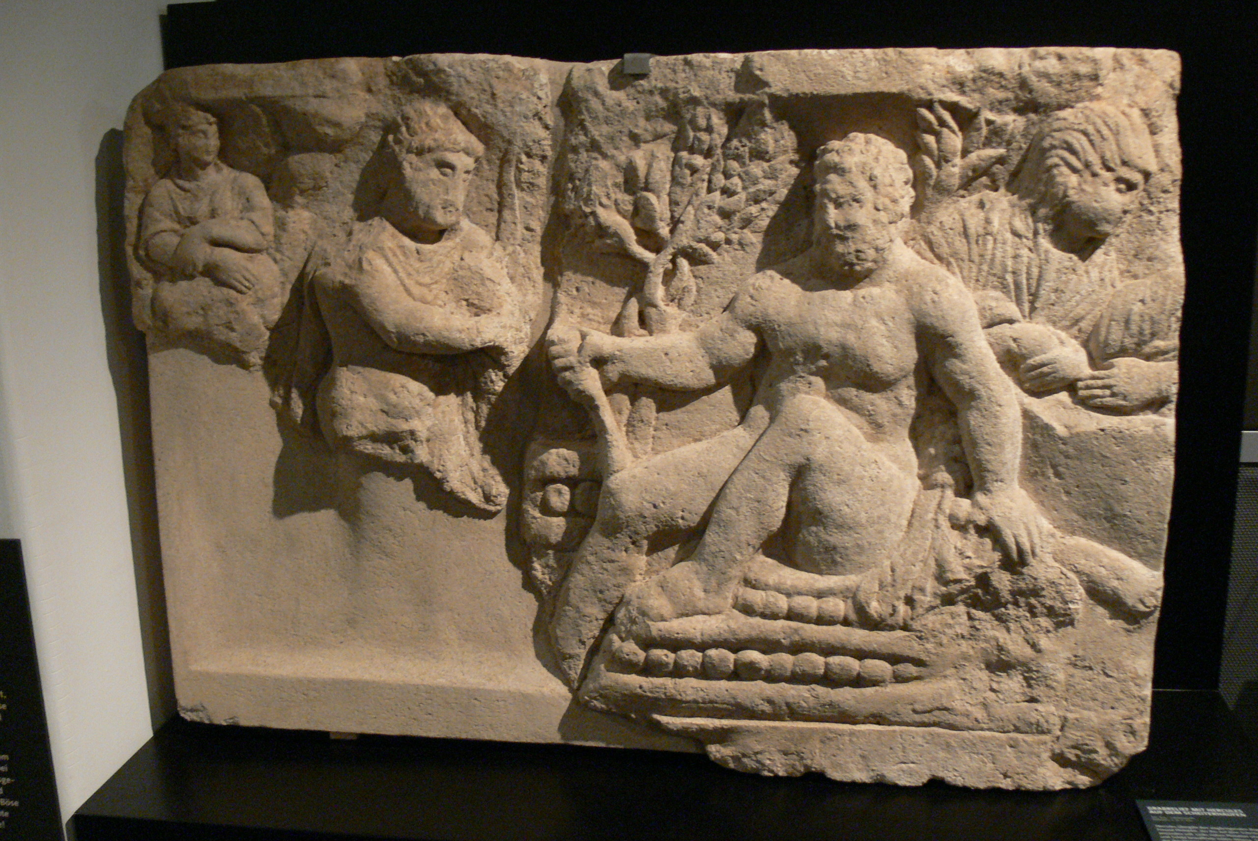 Museum Carnuntinum ( Lower Austria ). Funeral relief ( 2nd century ): The dying Heracles on the burning stake gives his bow to his friend Philoctetes. Right of Heracles Athena is waiting to bring him to heaven.